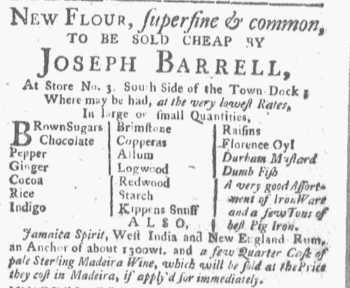 Newspaper item related to Boston merchant Joseph Barrell (1740-1804)